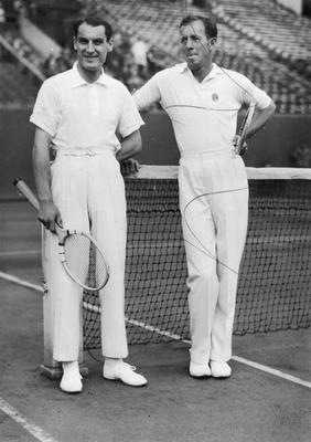 Tennis players Italian Giorgio de Stefani (left) and American Wilmer Allison on the court in the first rubber of the Inter-Zonal Zone Davis Cup match Italy-USA in Paris.